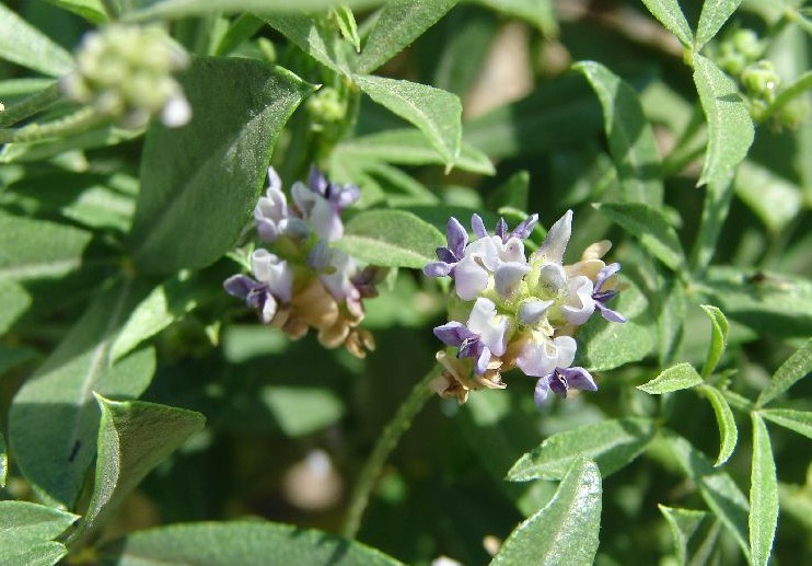 Psoralidium lanceolatum from Sheri Hagwood. Bureau of Land Management. United States, ID, Bureau of Land Management Jarbidge Resource Area. May 18, 2007.